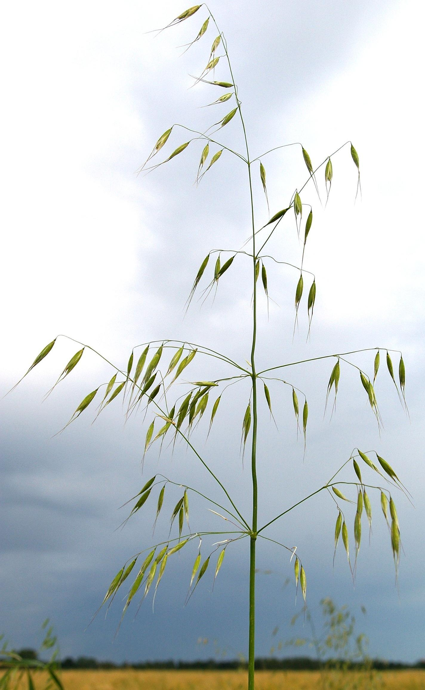 Common Wild Oat, Avena fatua. (Don't mix it up with Common Oat!)